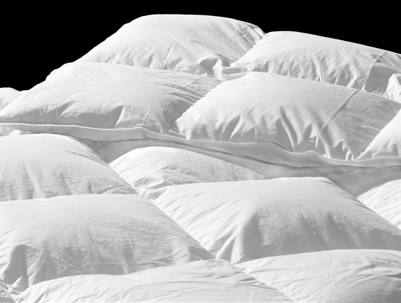 A photo of a white duvet.